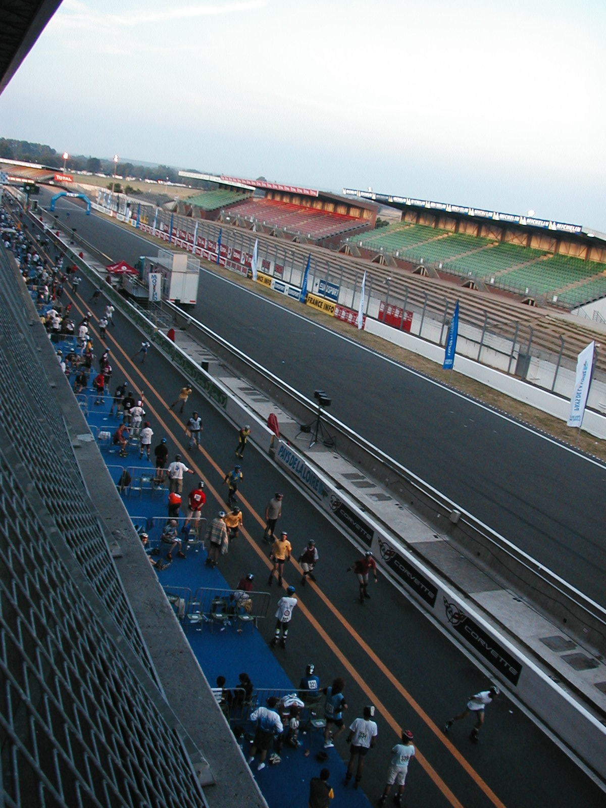 24h rollers: competitor's relay zone